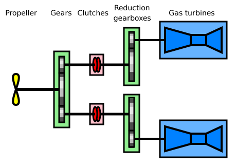 Diagram of a COGAG propulsion system. Please note that the arrangement of the gearing and clutches is just schematic to show the working principle. (Own work) Combined gas and gas COGAG